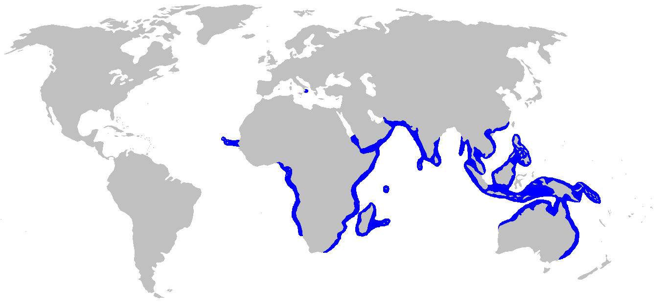 Distribution map for Carcharhinus amboinensis, based on Voigt, M.; Weber, D. (2011). Field Guide for Sharks of the Genus Carcharhinus. Verlag Dr. Friedrich Pfeil. pp. 47–49.